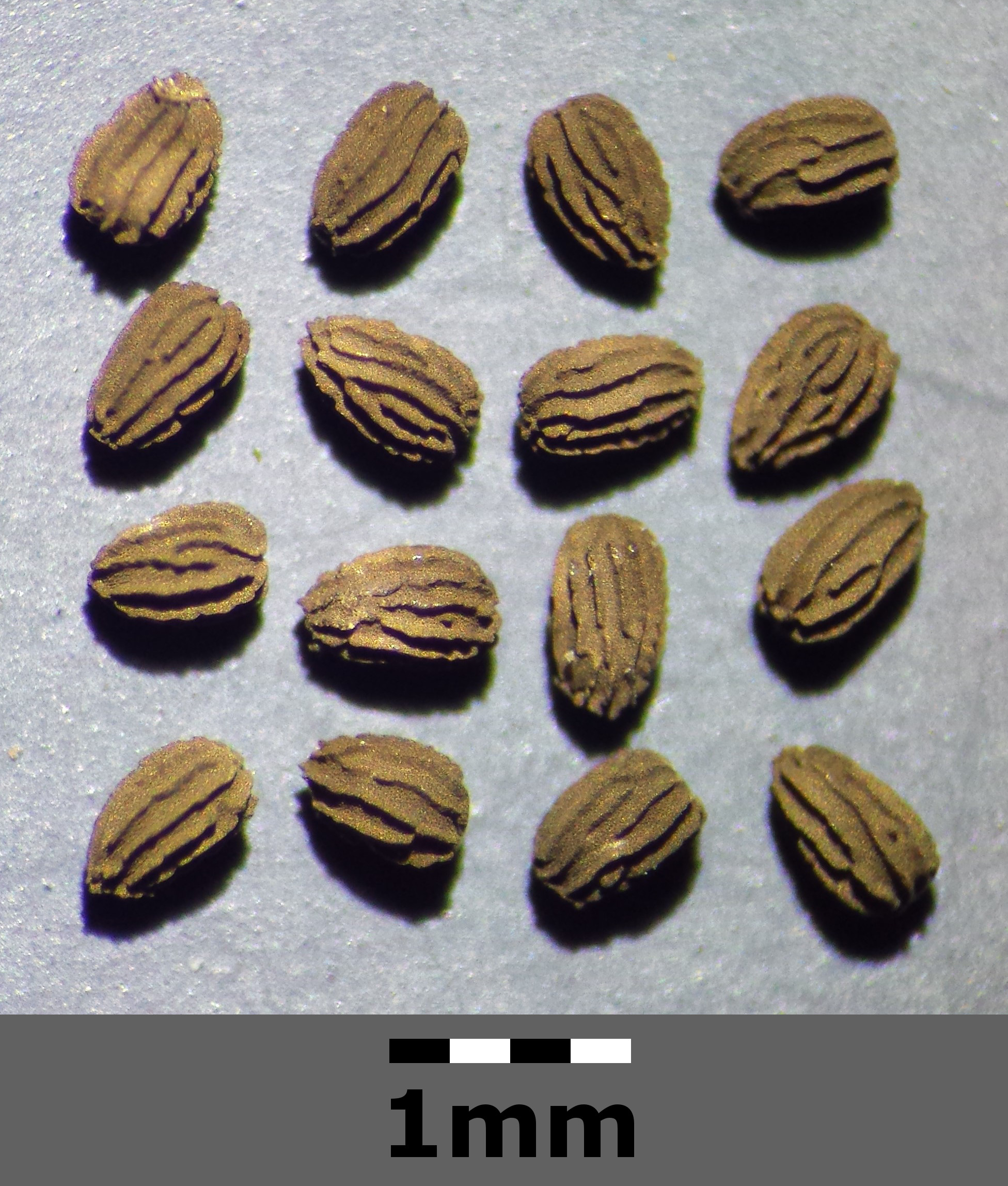 Seeds Taxon: Microrrhinum minus (sensu Fischer et al. EfÖLS 2008 ISBN 978-3-85474-187-9) Location: Klausgraben on Bisamberg, district Korneuburg, Lower Austria - ca. 250 m a.s.l. Habitat: crack within road coating